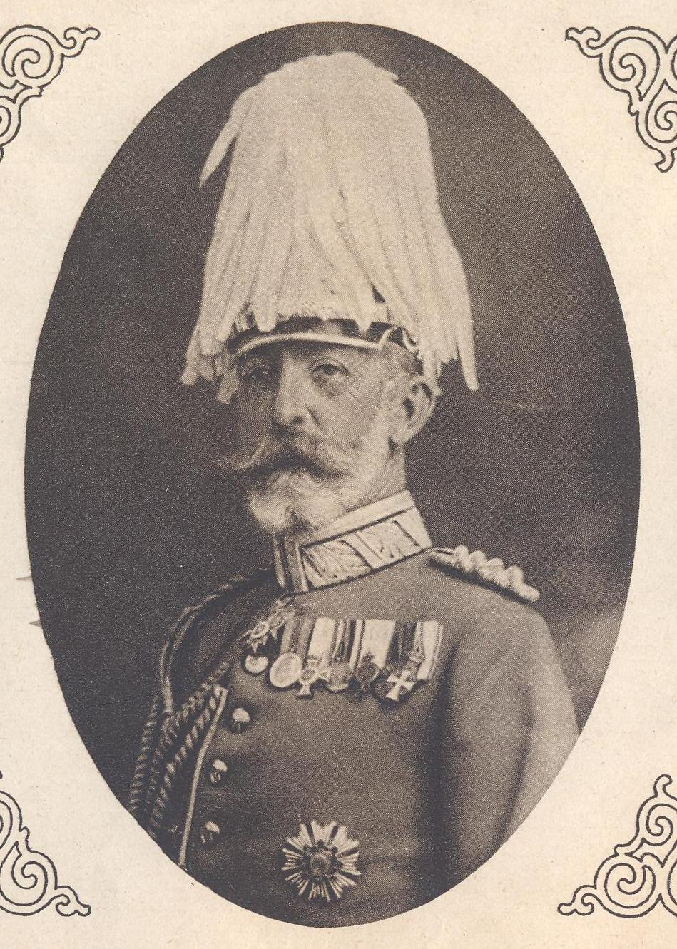 Felix von Bothmer. Rudolf Mosse, "Album de la Grande Guerre" №10, 1915